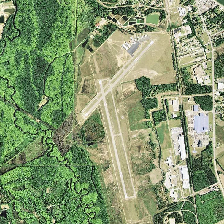 USGS digital orthophoto of Orangeburg Municipal Airport in South Carolina